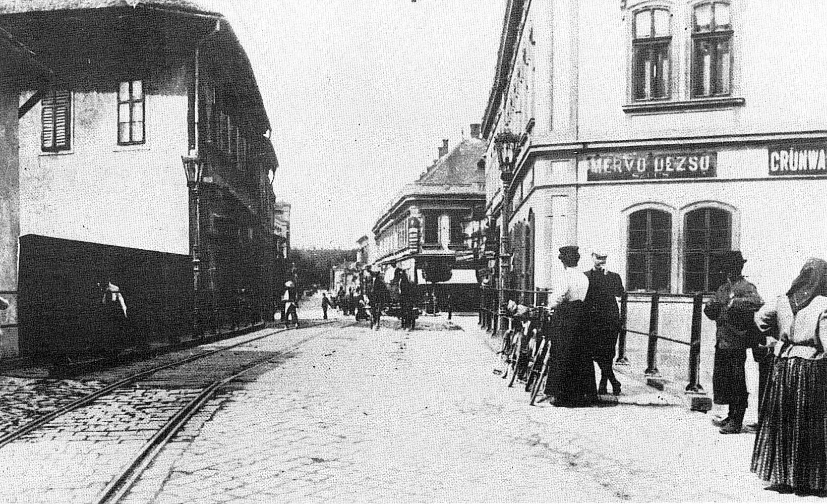 The former Forgó bridge in Miskolc, around 1900